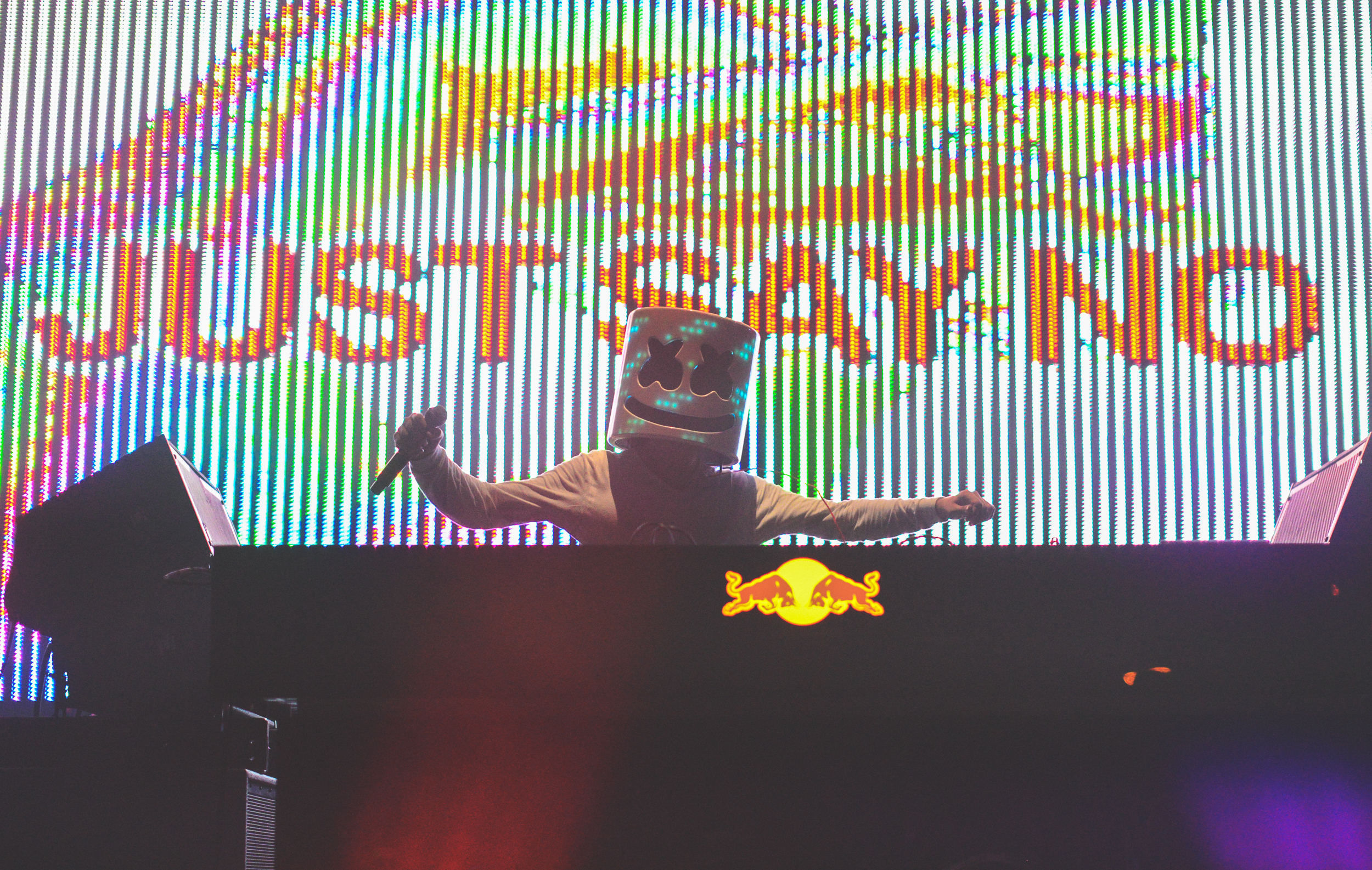 Marshmello performing at the Mad Decent Block Party at the Fort York Garrison Commons on August 19, 2016